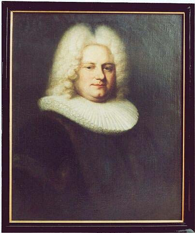 Garlieb Sillem, 18th century oil painting